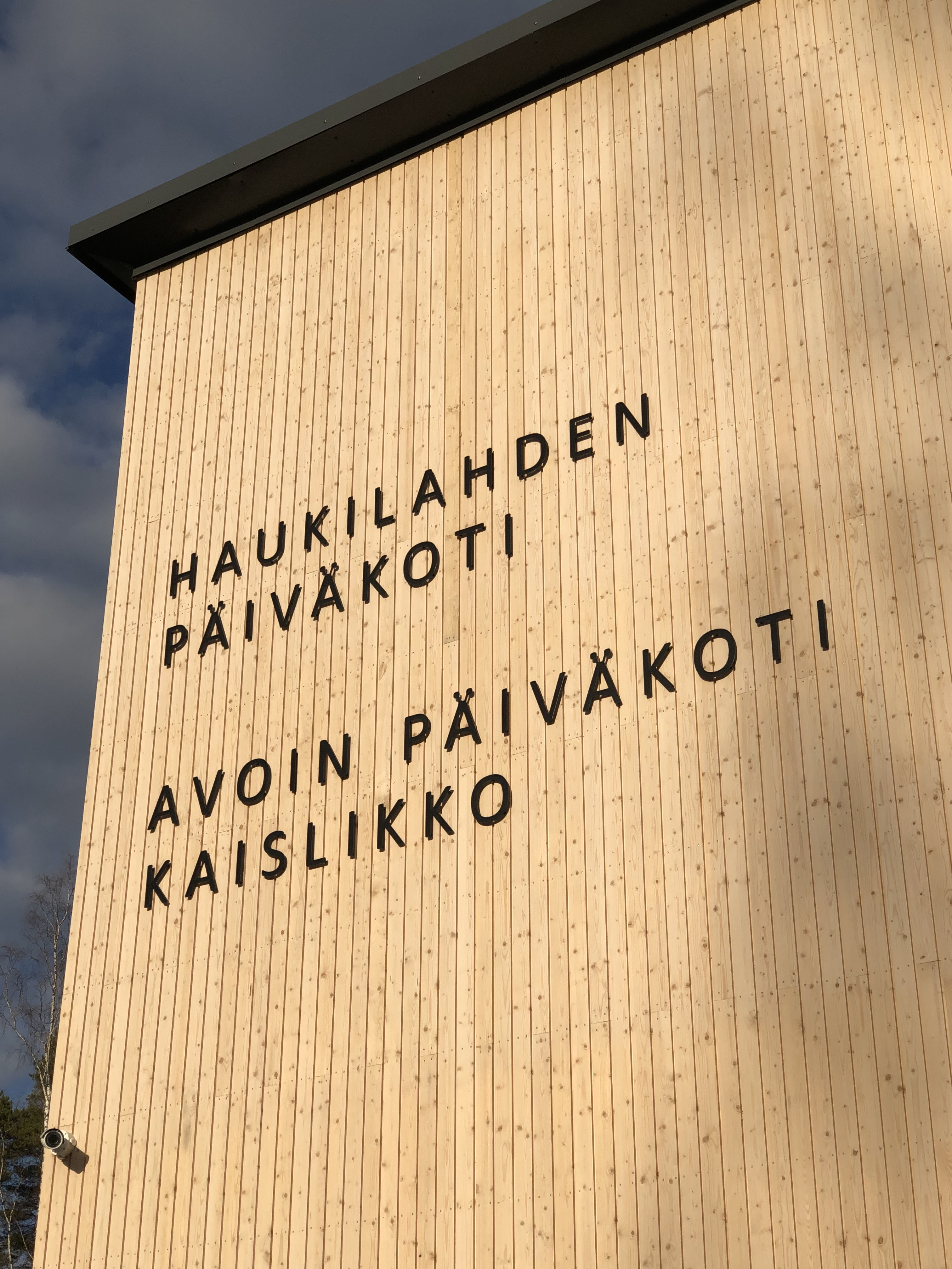 Haukilahti day care center in April 2019.